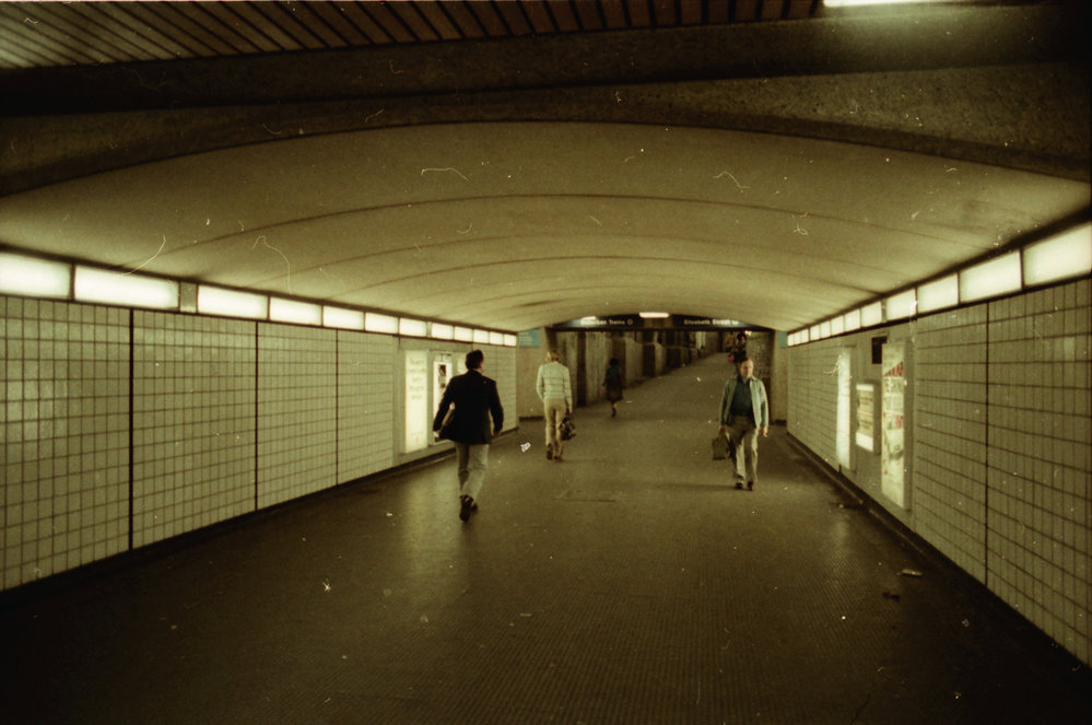 The Devonshire Street Tunnel is a 300-metre-long (980 ft) pedestrian tunnel located beneath the southern end of Central station connecting the suburb of Surry Hills with Railway Square in the Sydney central business district. It opened in 1906, joining as a pedestrian continuation of Devonshire Street in the east to Lee Street in the west, it cut through what was the Devonshire Street Cemetery.